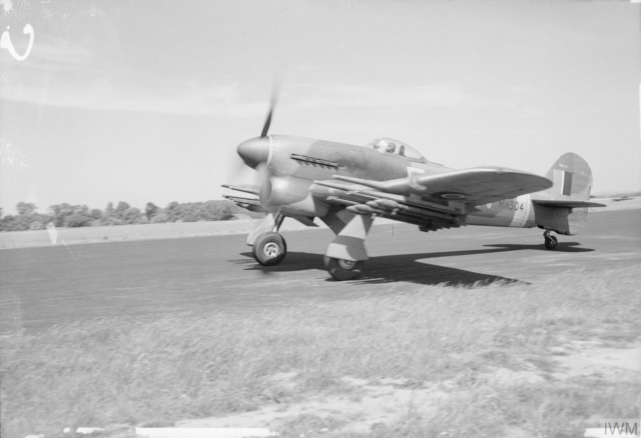 Aircraft of the Royal Air Force 1939-1945- Hawker Typhoon. Typhoon Mark IB, MN304 ‘FJ-N’, of No. 164 Squadron RAF, begins its take-off run at Thorney Island, Hampshire, for a sortie over France.